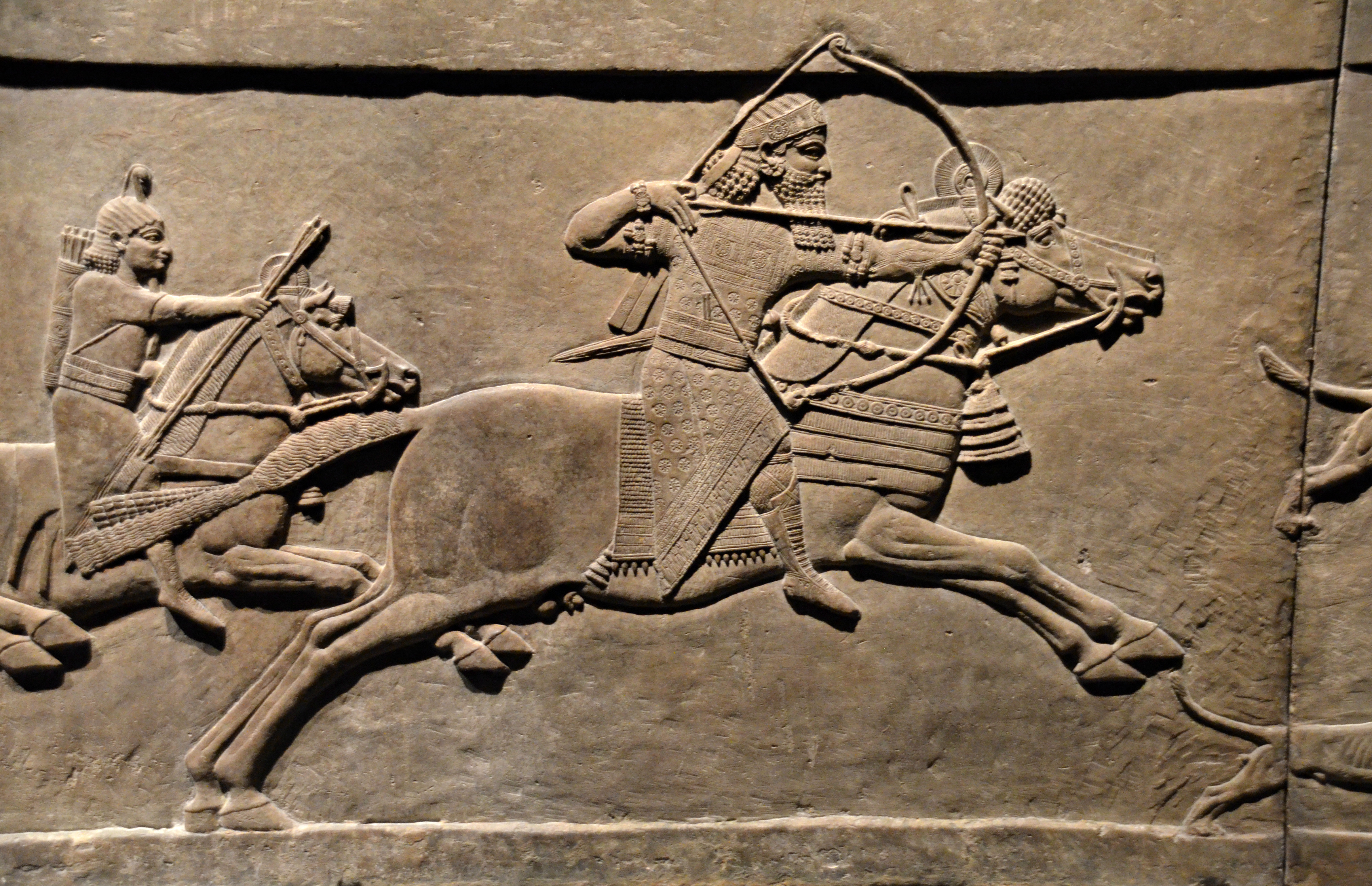 Exhibition: I am Ashurbanipal king of the world, king of Assyria, British Museum